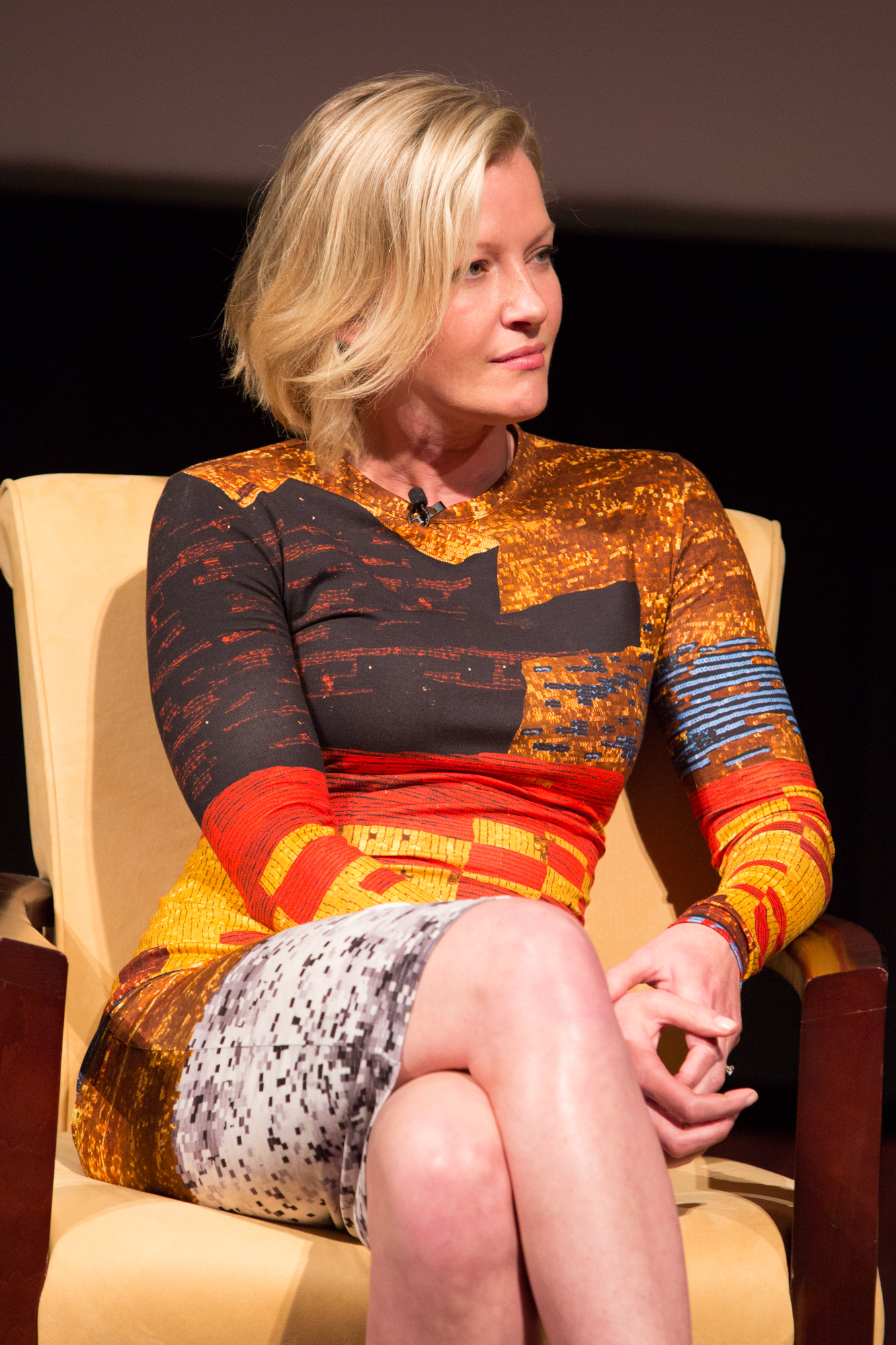 Gretchen Mol, discusses the creation of Boardwalk Empire